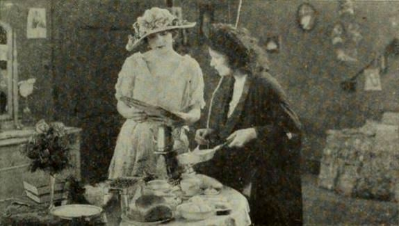 Still from the American film Hate (1922) with Alice Lake, page 55 of the July 1922 Photoplay.